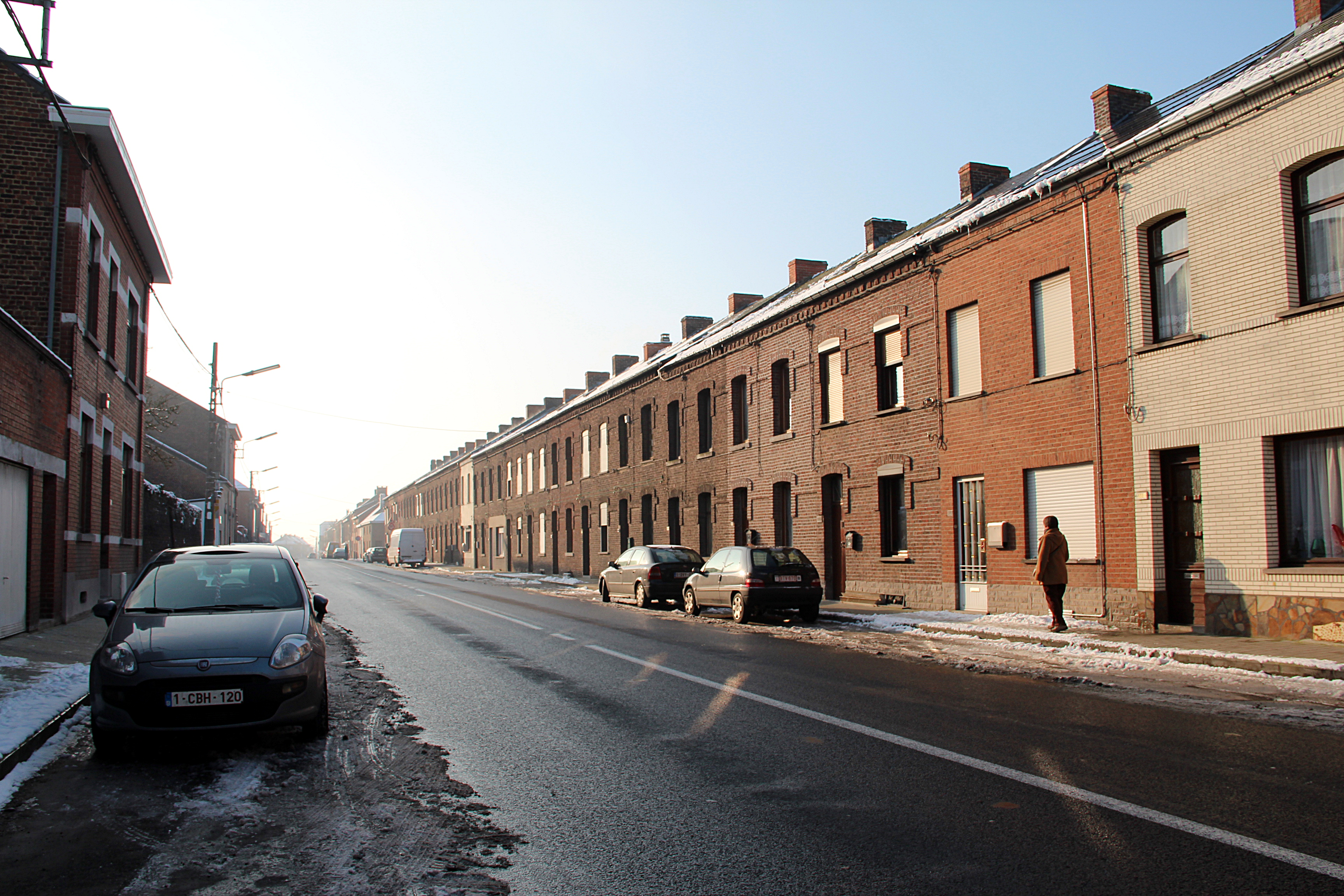 Havré (België), the houses for miners in Chaussée du Rœulx.